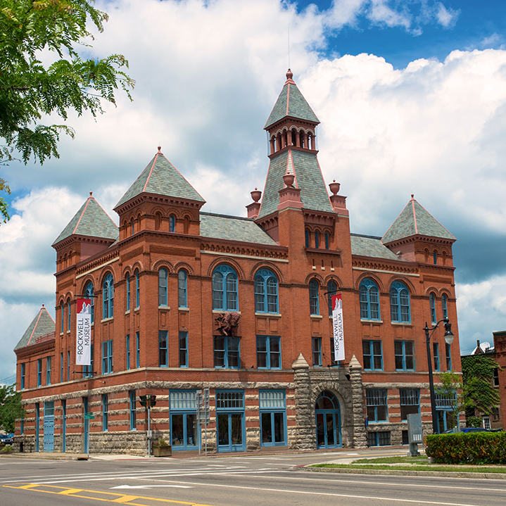 Rockwell Museum Building Exterior, 2015